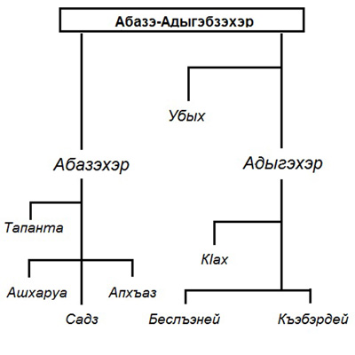 tree diagram of Adyghe-Abaza languages